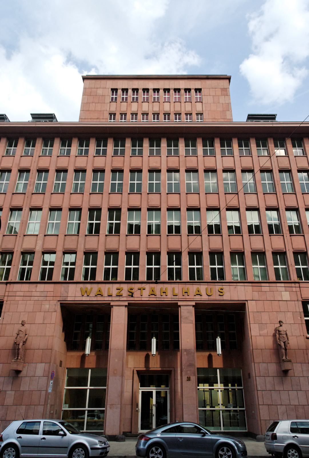 Walzstahlhaus in Düsseldorf-Stadtmitte, Germany